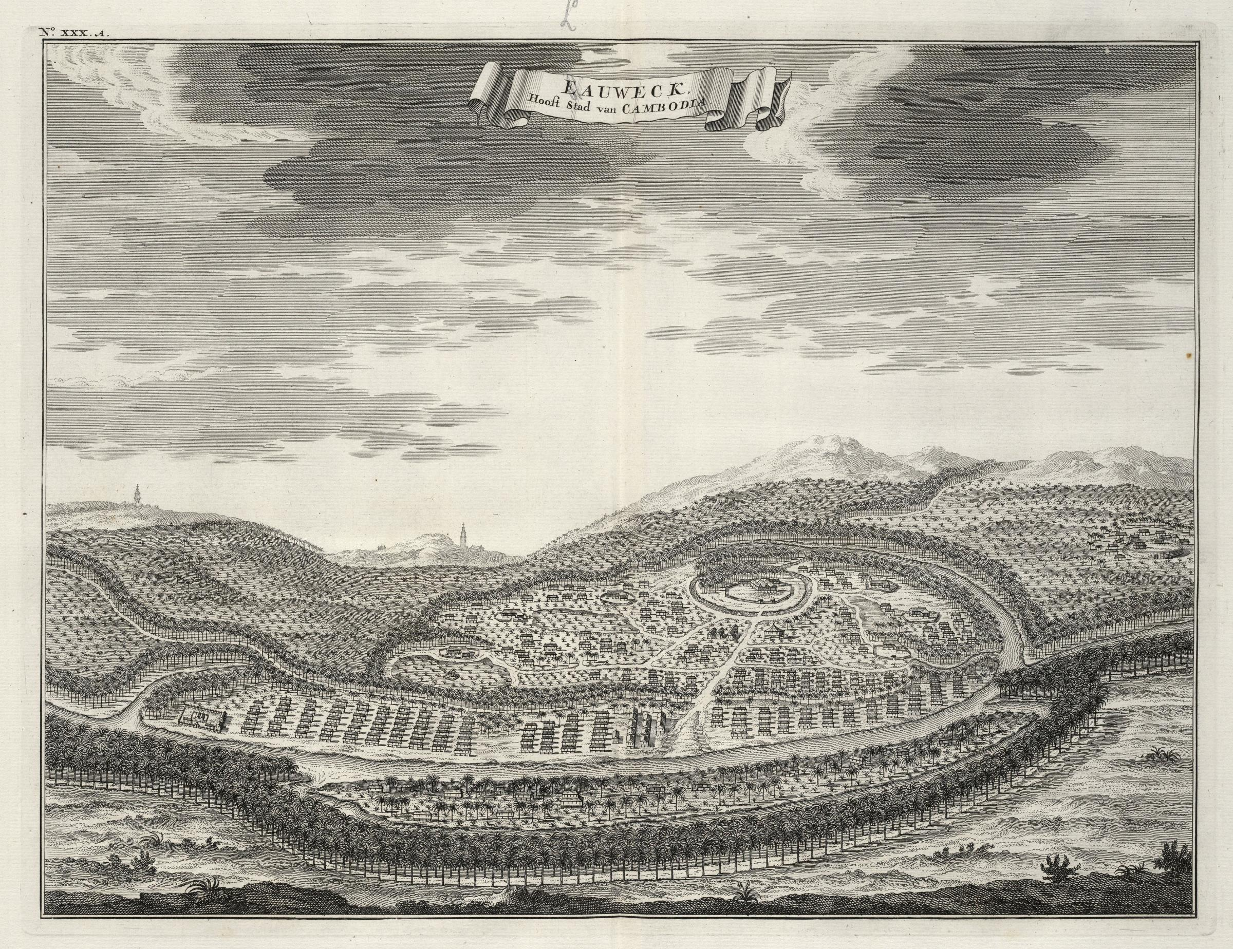 Bird's eye view of Eauweck. Eauweck, Hooft Stad van Cambodia. Top left: No: XXX.A. Cf. National Archives, inv. nr. VELH 619.4 and Koninklijke Bibliotheek, The Hague, inv. nr. 693 C 6 part XII, op. p. 290. This plate is taken from the work 'Oud en Nieuw Oost-Indiën' by François Valentyn. The letter E of Eauweck has been crossed out in pencil on the chart and replaced by an L, a fault in transcription.